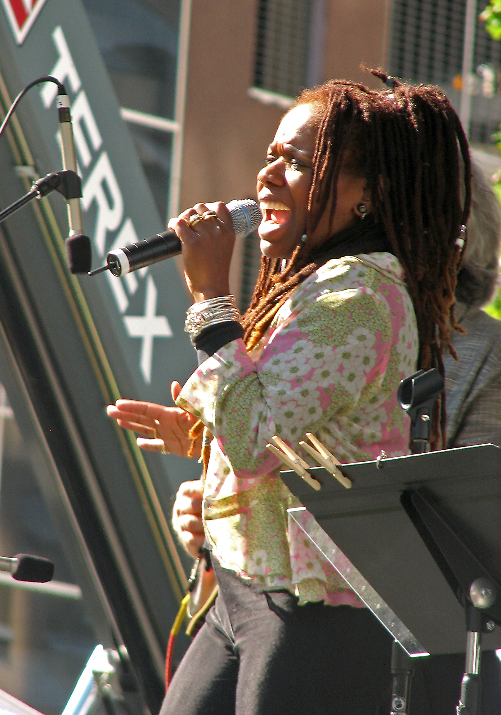 Cat Russell performs at the Detroit Jazz Fest.